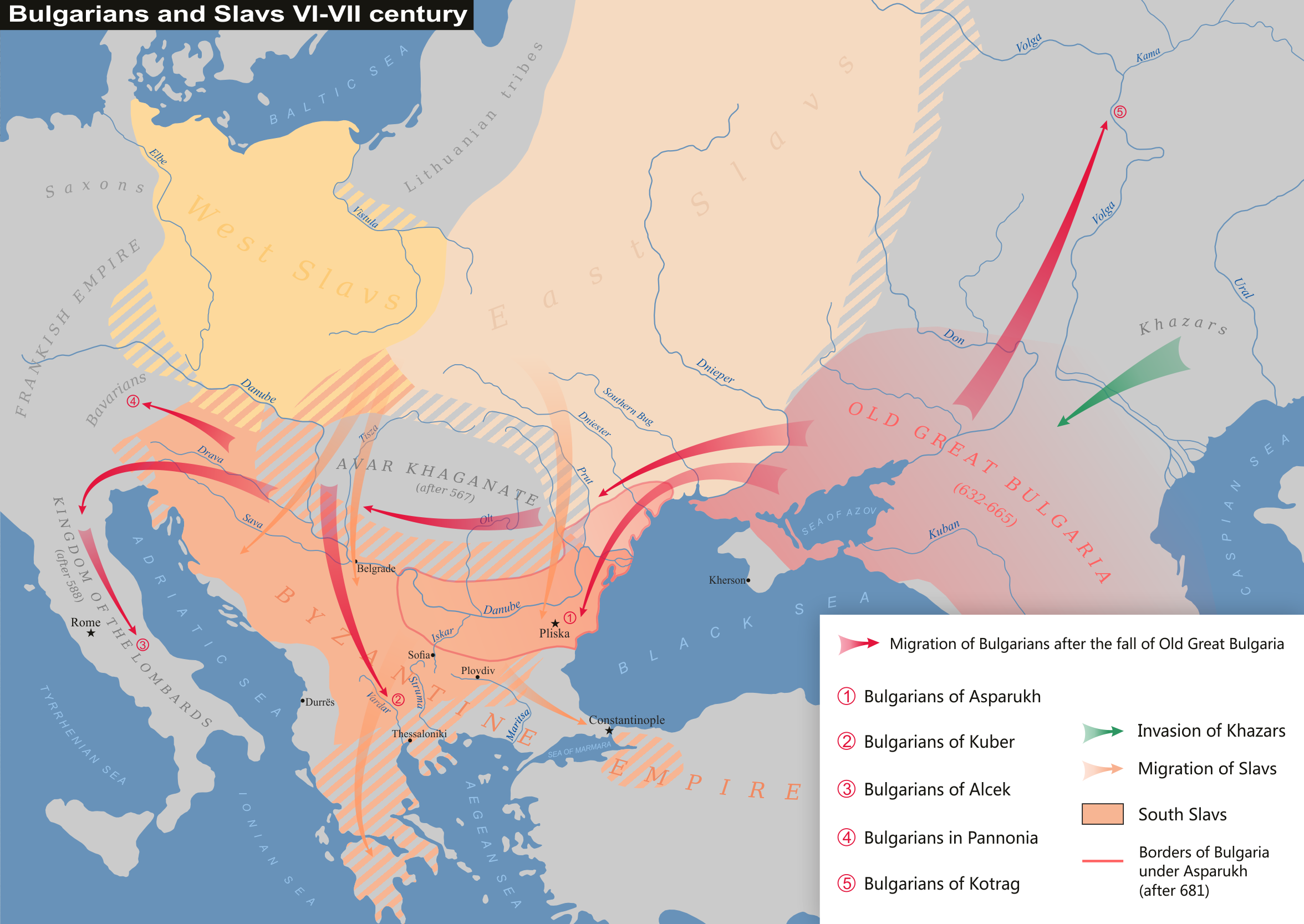 Bulgarians and Slavs VI-VII century